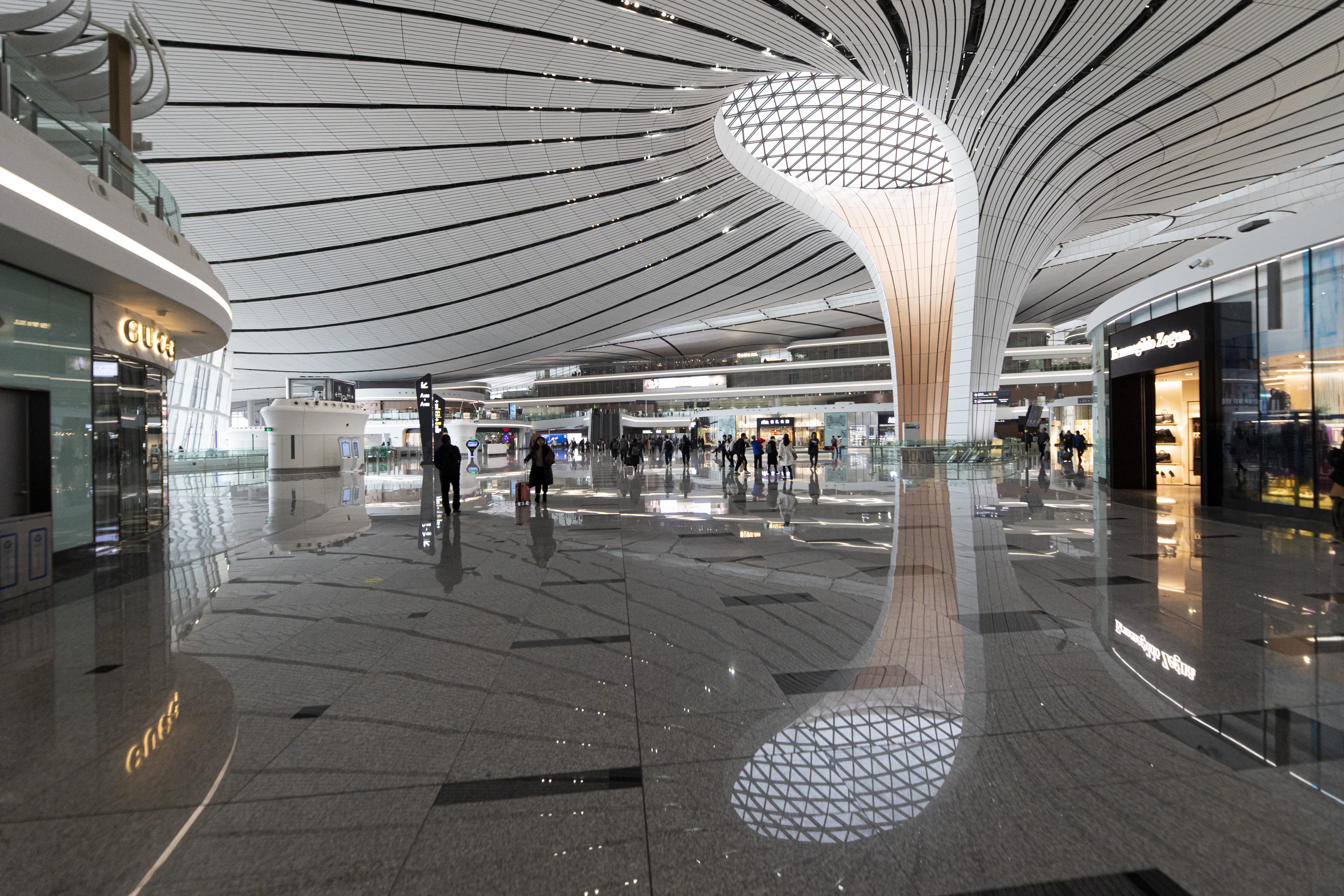 Beijing Daxing International Airport